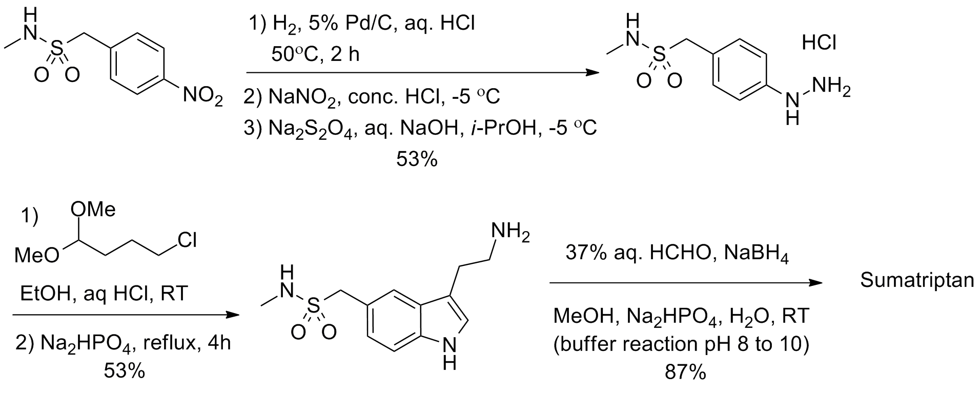 WO 0134561 This is an improved version of the original synthesis